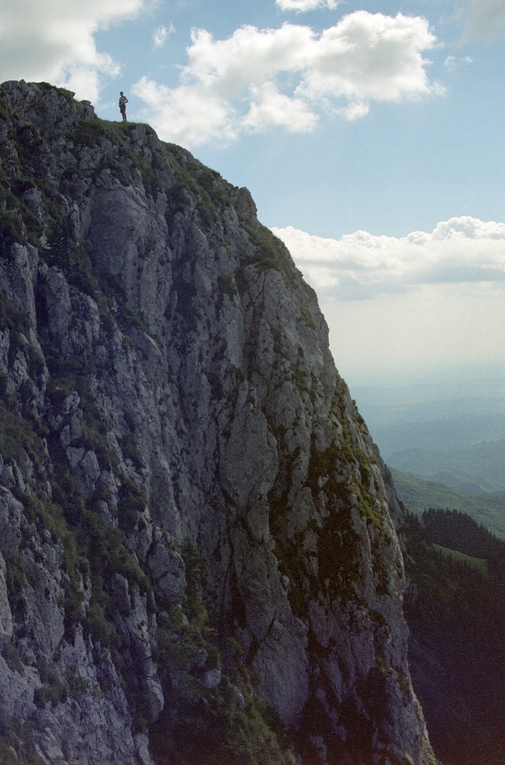 Vânturariţa Mare Peak (1885m) in the Buila-Vânturarița National Park in Căpăţânii Mountains, Romania.